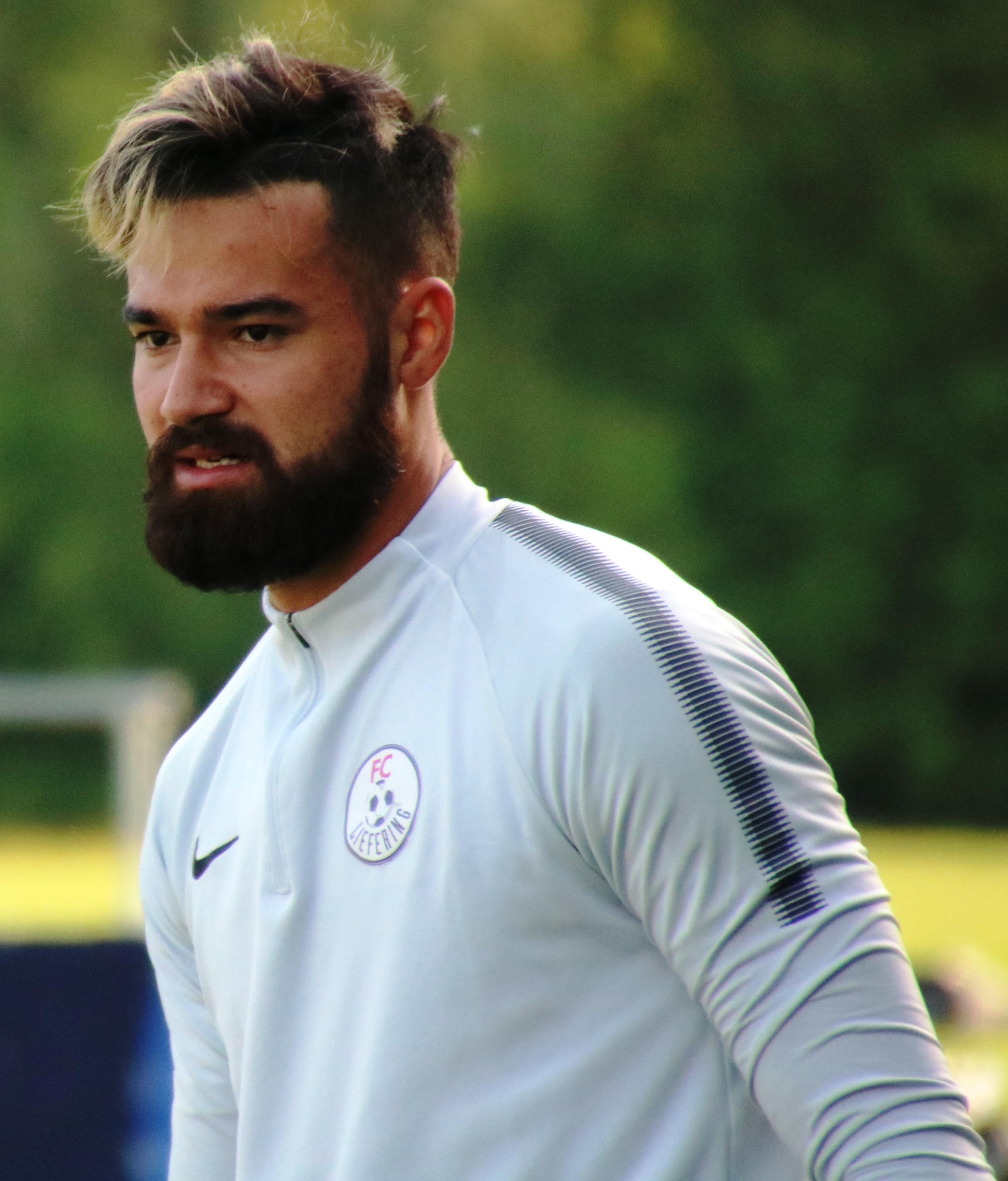 Austria 2nd league league match